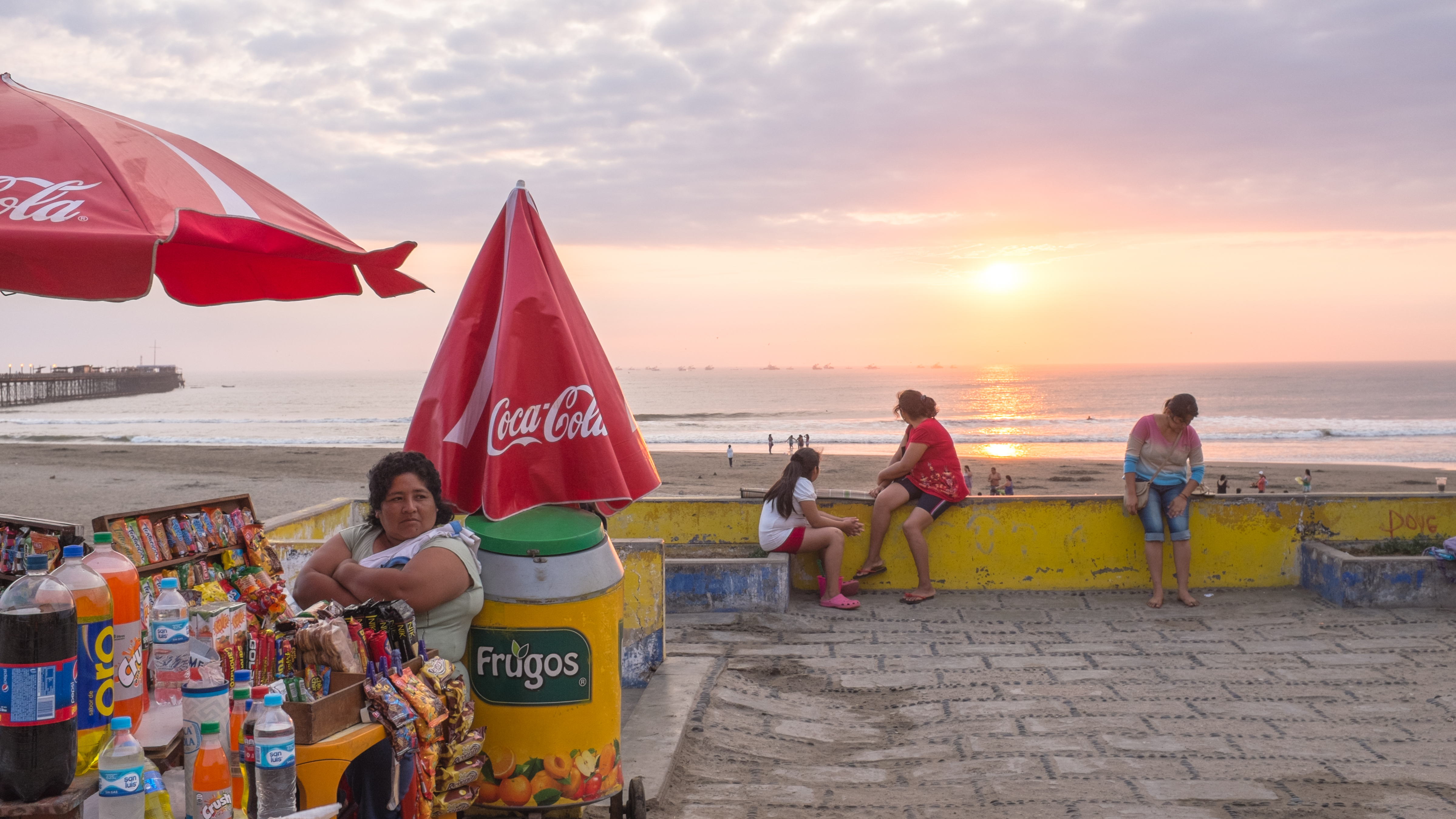 Sun setting over the beach of Pimentel District, Chiclayo, Peru.